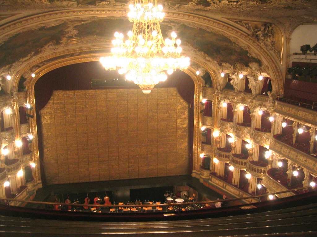 Praha, Statní opera (State Opera House, originally built as "Neues Deutsches Theater" [New German Theatre])